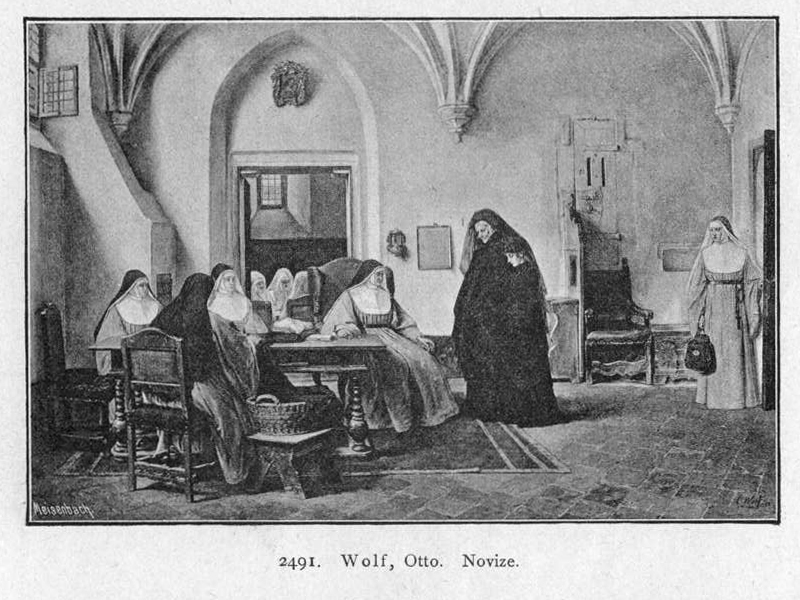 Otto Friedrich Wolf - Novice